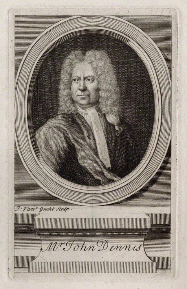 John Dennis by John Vandergucht line engraving, published 1734 National Portrait Gallery, London